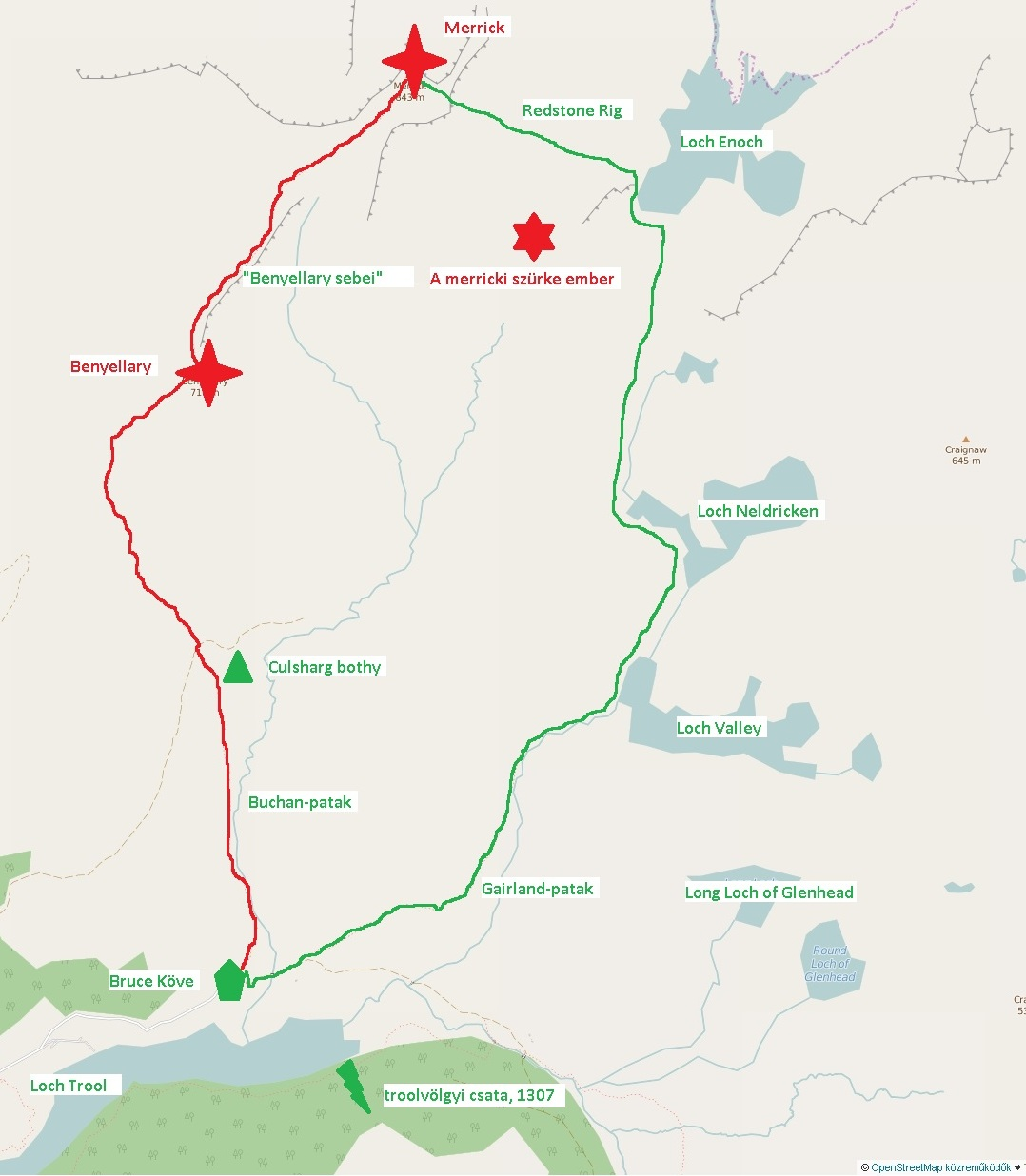 Trails leading to the summits of Benyellary and Merrick.